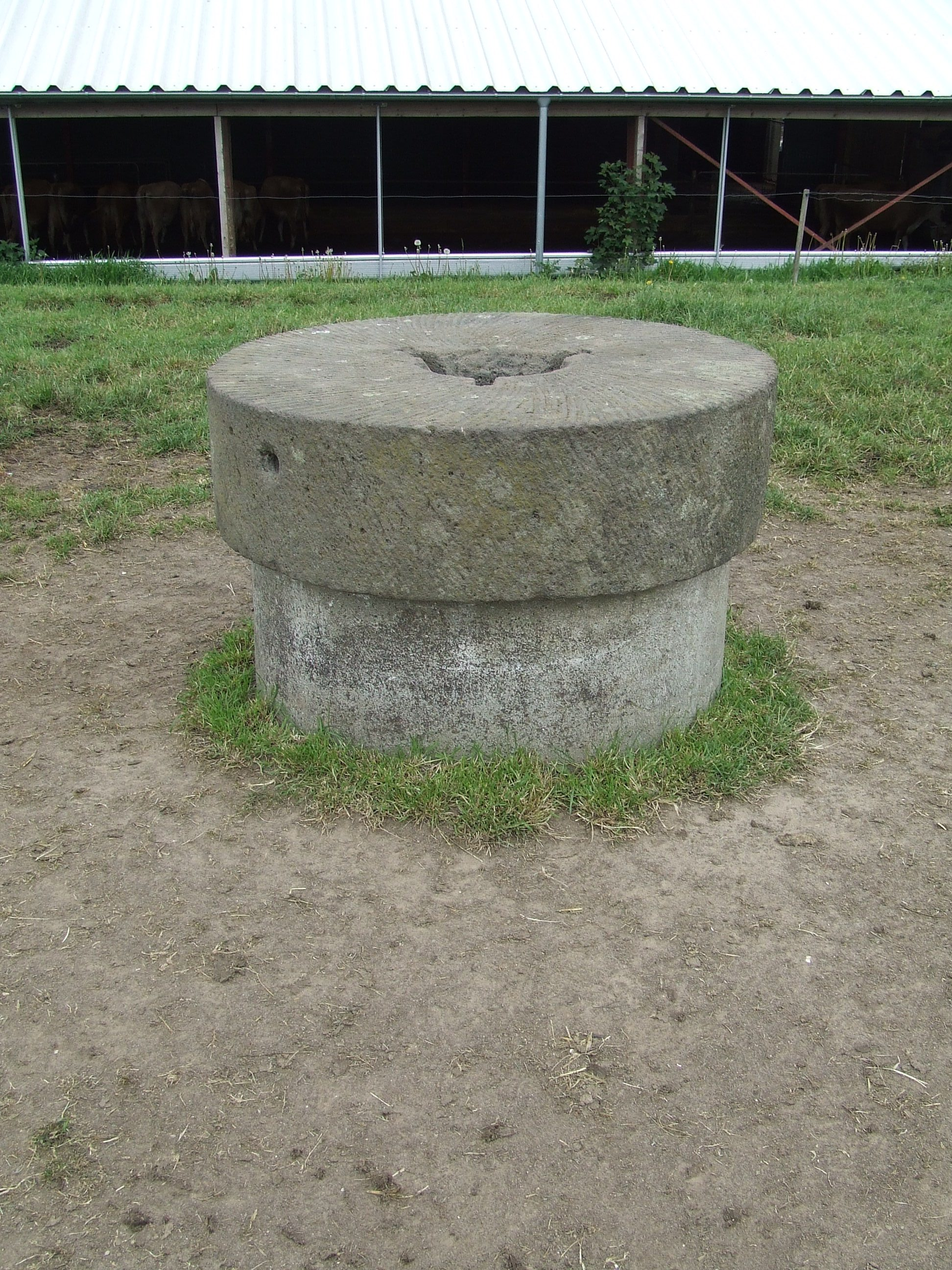 The millstone marking the top of Mollehøj